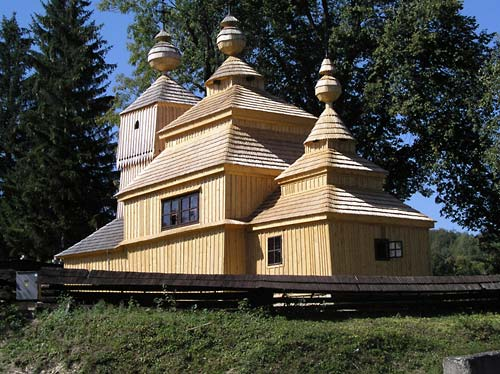 The historic old wooden church of St. Nicholas in Bodruzal, Slovakia. Photo from the U.S. Embassy in Bratislava [1].